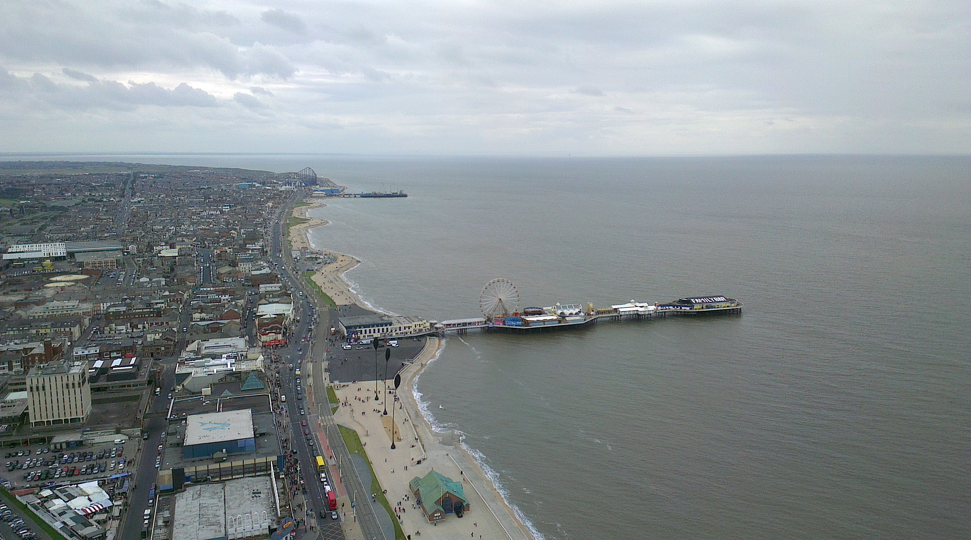 As viewed from Blackpool Tower